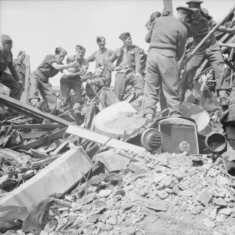 The British Army in the United Kingdom 1939-45 Troops of 9th Battalion, the Hampshire Regiment, helping to clear bomb damage in Hul1.